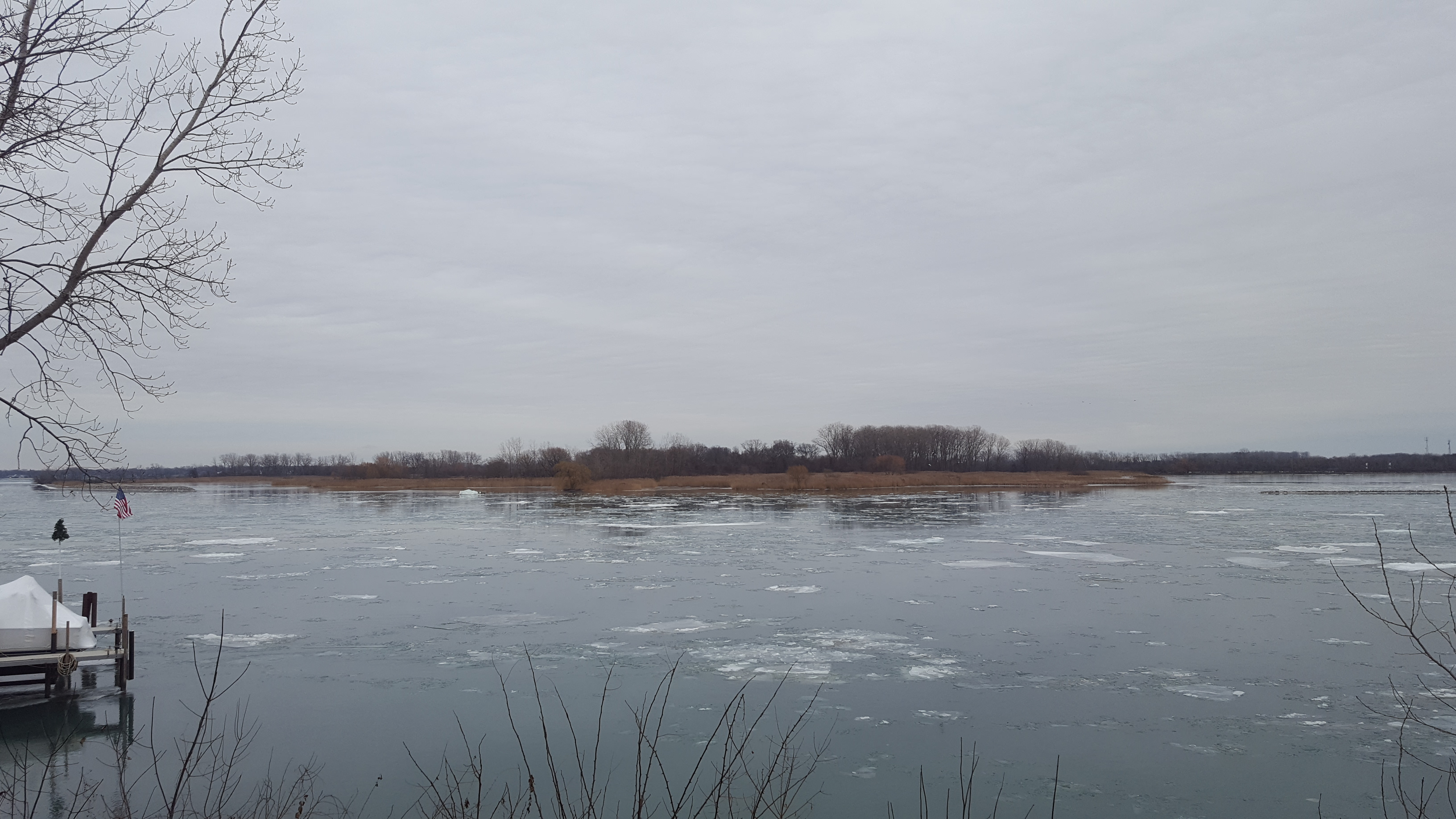 Stony Island, Detroit River, now owned by the State of Michigan and managed as part of Pointe Mouillee State Game Area. Photo taken from Grosse Ile